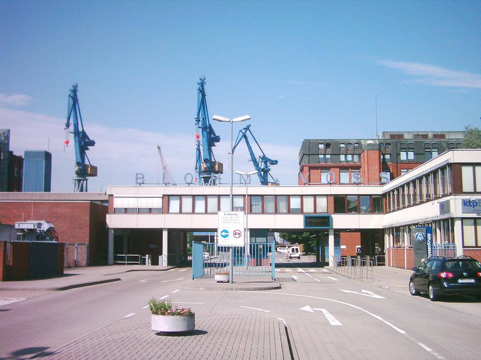 Blohm + Voss, Hamburg, Germany.